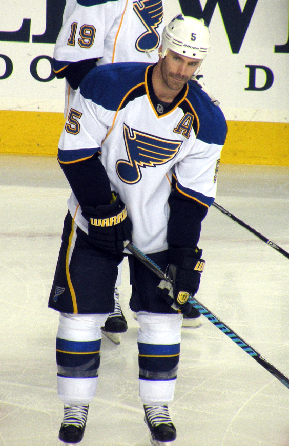 St. Louis Blues defenceman Barret Jackman prior to a National Hockey League game in Calgary